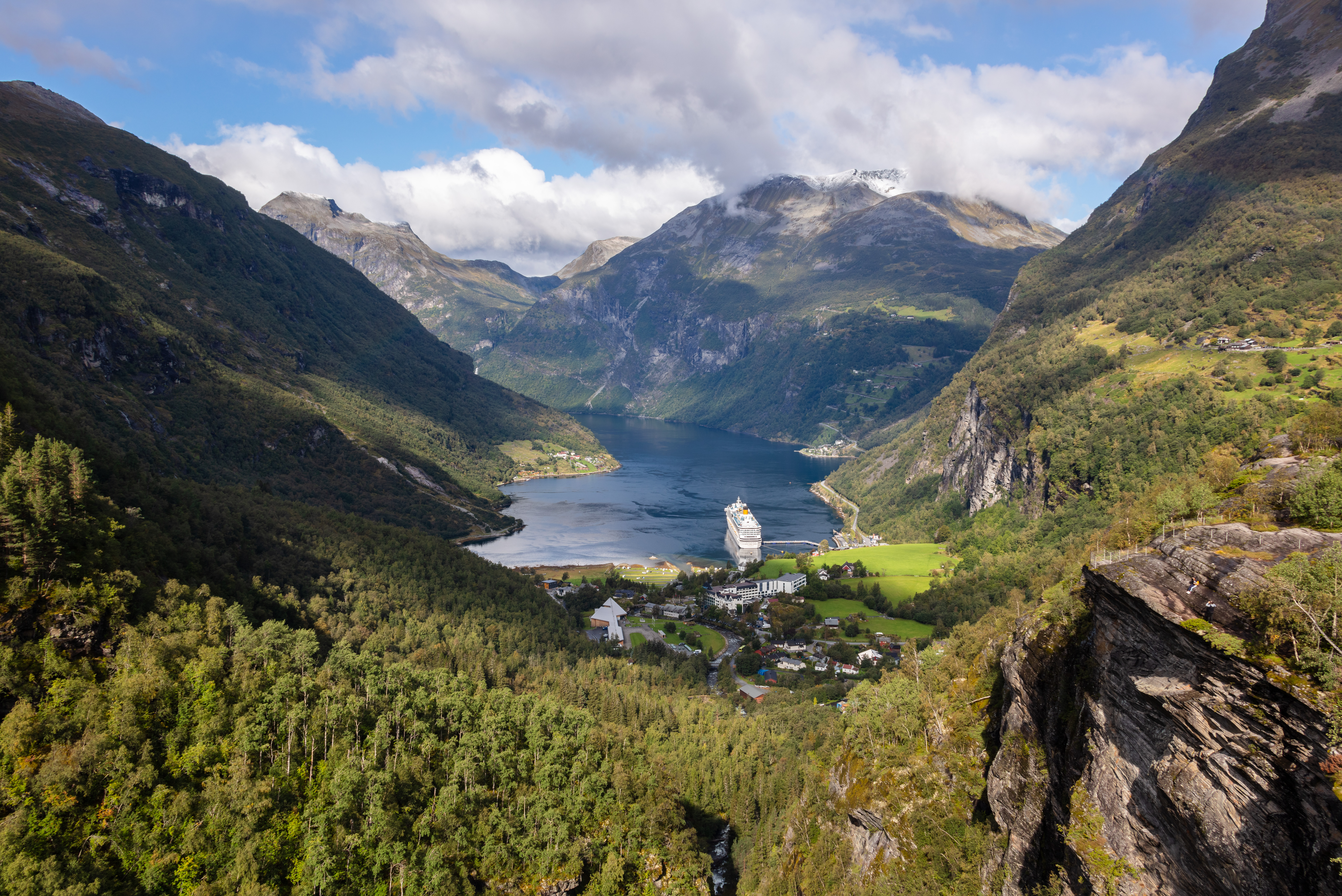 Geirangerfjorden from Flydalsjuvet, Norway